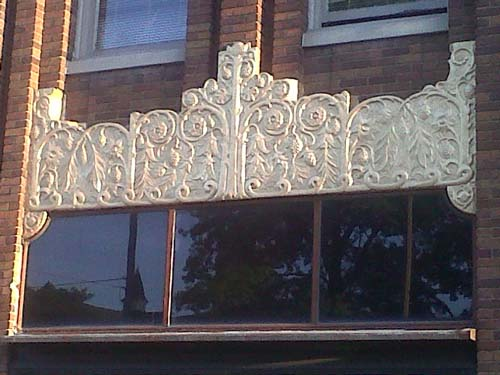 There are 13 of these beautiful art deco terracottas on the front and south side of the building.